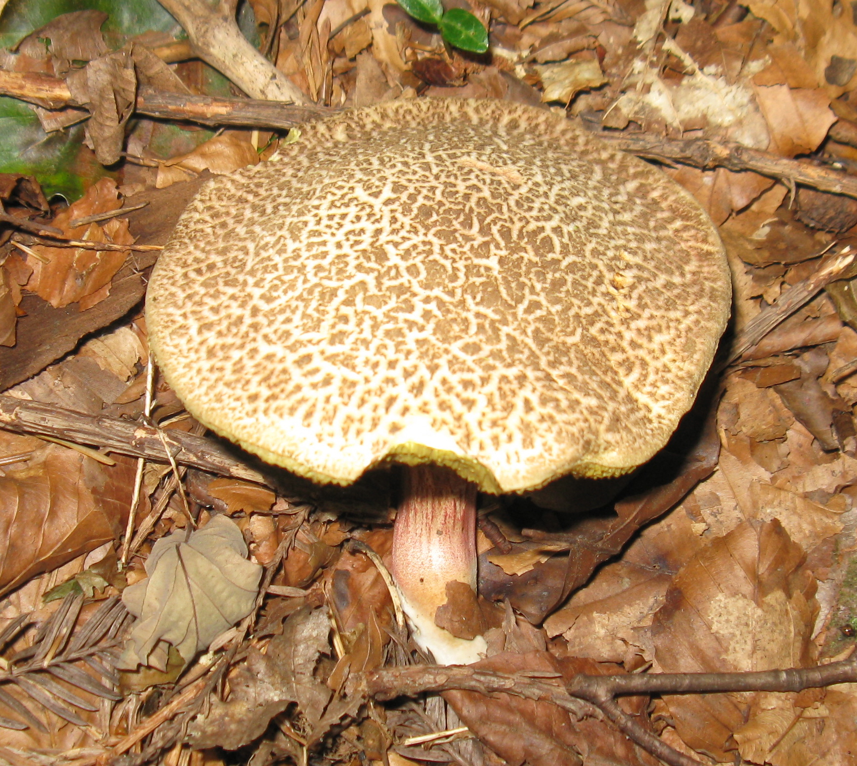 Sowdley Wood, Clun, England. Thanks to kuteram for the correct identification.